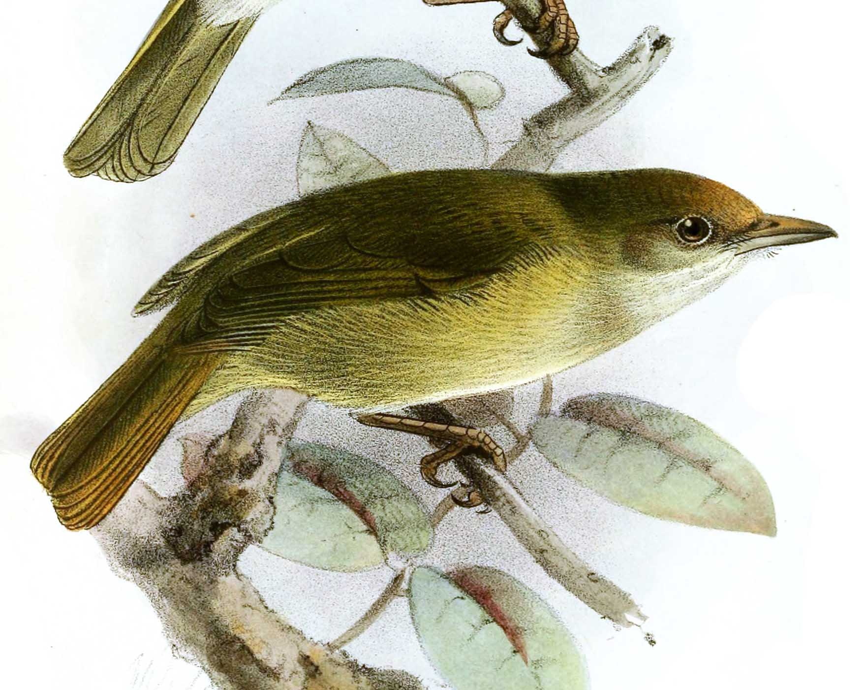 « Hylophilus ferrugineifrons » = Hylophilus ochraceiceps (Tawny-crowned greenlet)